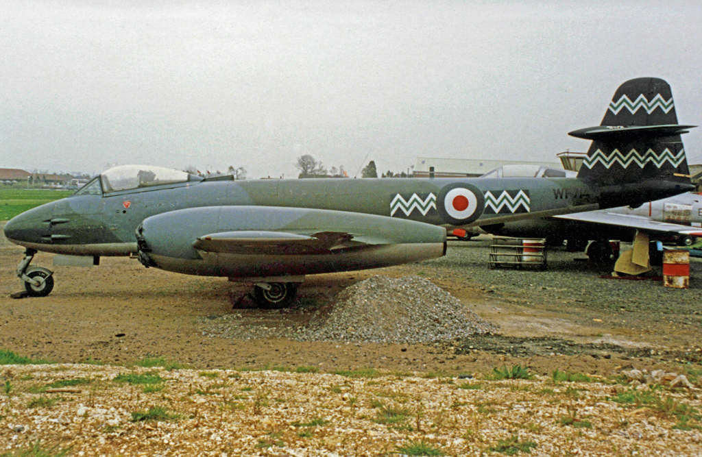 Gloster Meteor F.8 wearing the markings of No. 500 Squadron RAuxAF at Rochester in 1988